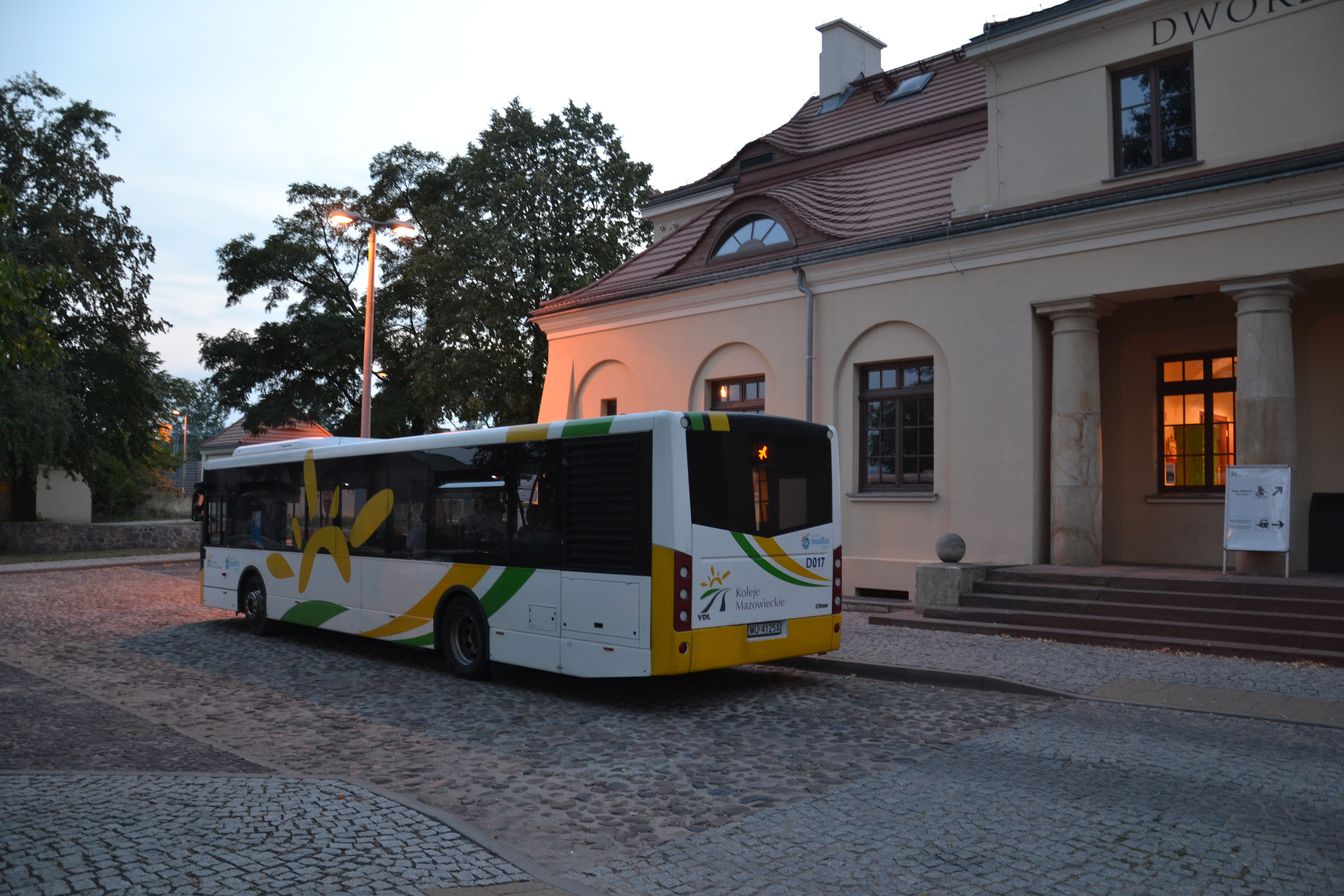 Autobus VDL Citea przed dworcem w Modlinie This photo was taken during Railway Wikiexpedition 2015 set up by Wikimedia Polska Association in cooperation with Fundacja Grupy PKP. You can see all photographs in category Wikiekspedycja kolejowa 2015.